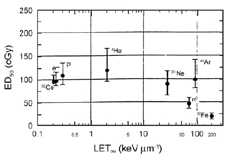 Figure 6-3. ED50 for CTA as a function of LET for the following radiation sources: 40Ar = argon ions, 60Co = Cobalt-60 gamma rays, e- = electrons, 56FE = iron ions, 4He = helium ions, n0 = neutrons, 20Ne = neon ions (Rabin et al., 1991).